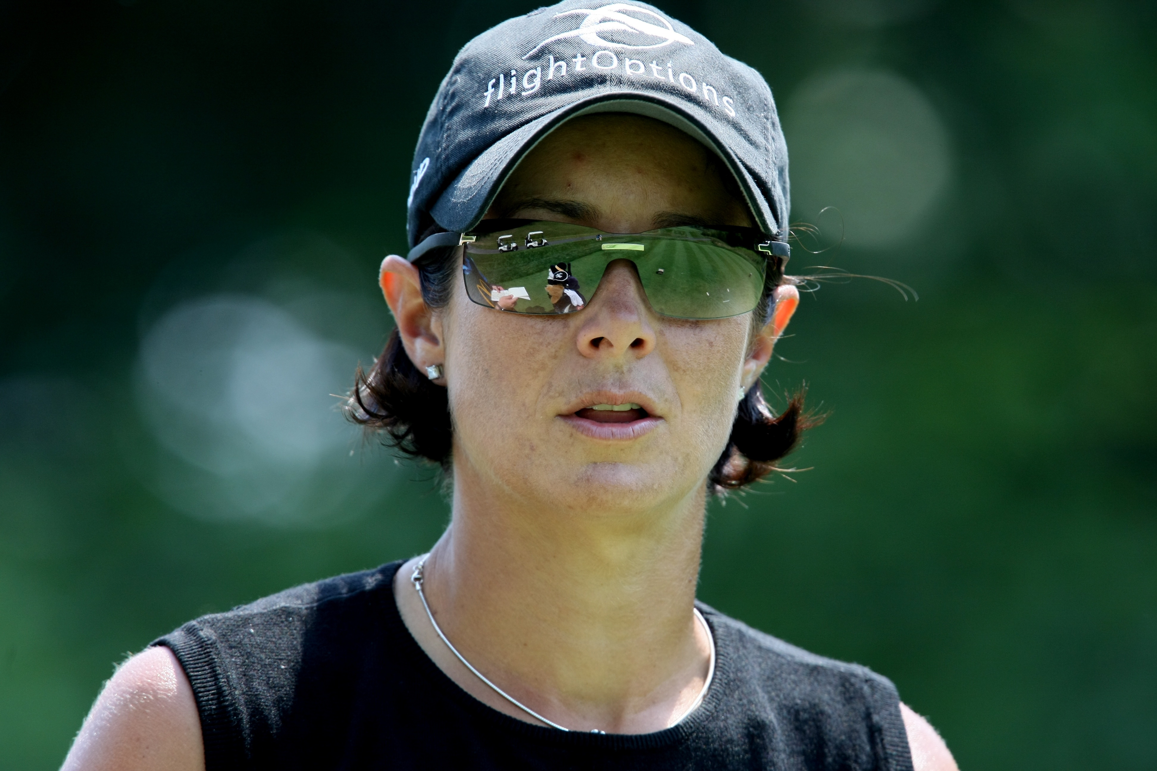 HAVRE DE GRACE, MD - JUNE 08: Laura Diaz (USA) during Pro-Am before 2009 LPGA Championship held at Bulle Rock Golf Course, on June 8, 2009 in Havre de Grace, Maryland. (Photo by Keith Allison)